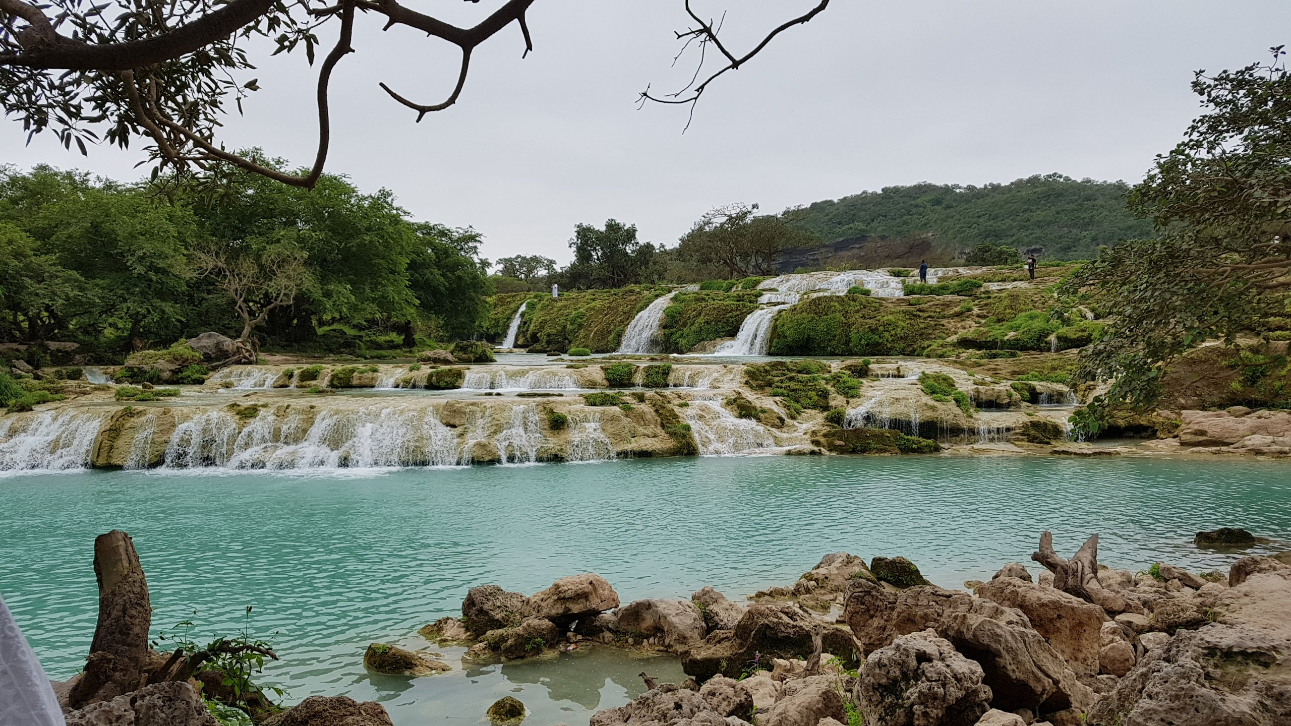 Wadi darbat is the most famous wadi in salalah